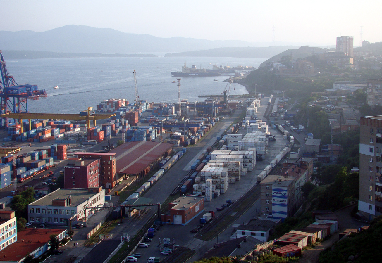 Vladivostok Commercial Port 2009